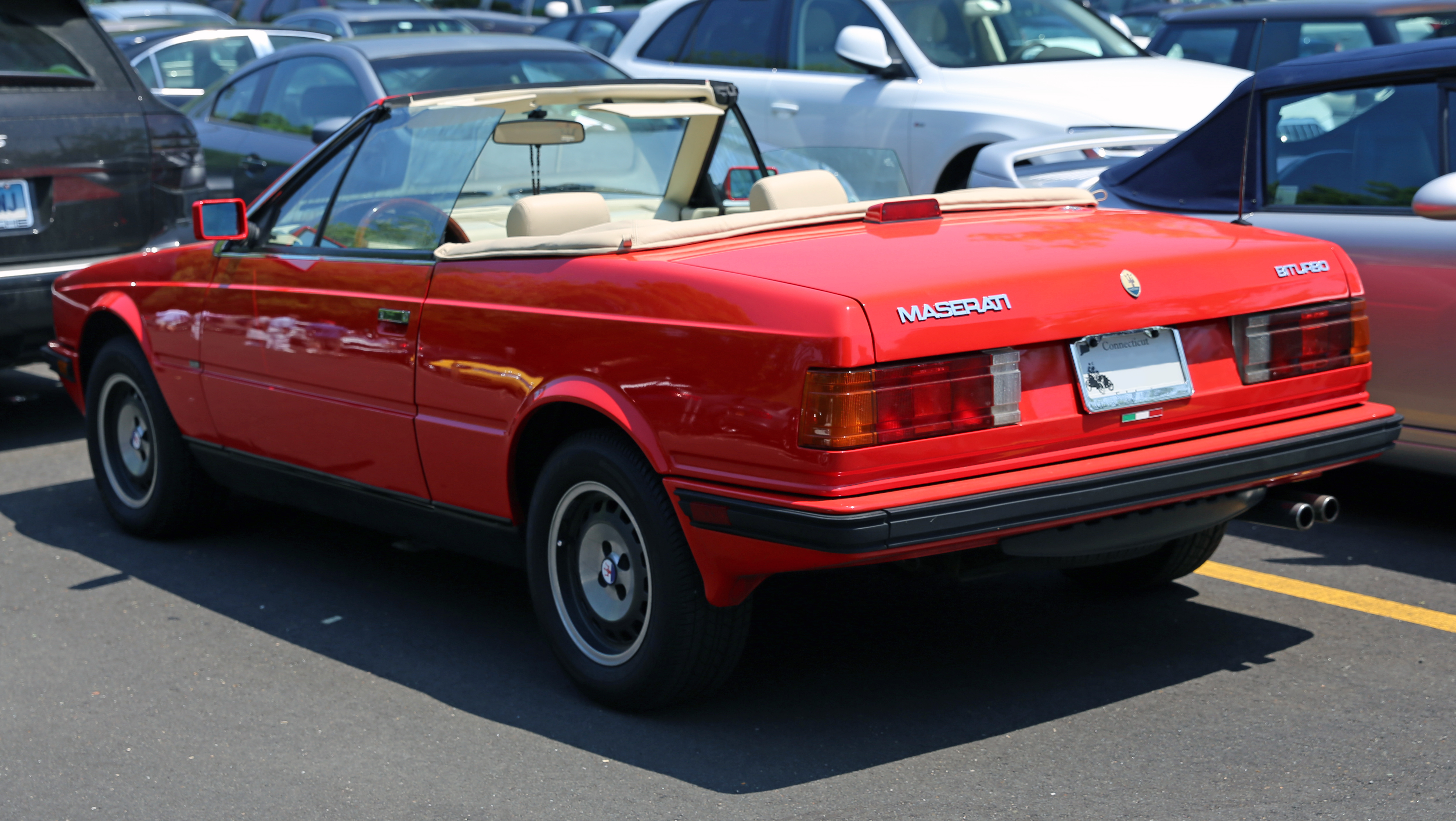 1987 Maserati Biturbo Spyder (by Zagato) at the 2013 Greenwich Concours d'Elegance. 1987 was when the Biturbo received a fuel injected engine and the three-speed slushbox was discontinued, but this car is stuck with the older spec. It may actually have been built in 1986 but spent some time in Maserati's yard before being assigned a US VIN code, who knows!